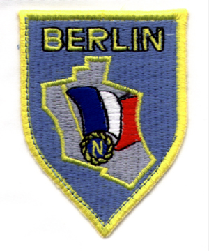 Original badge of the Forces Françaises à Berlin (French Forces in Berlin) after 1949 as on display at the Allied Museum, the former Outpost Cinema, in Berlin.